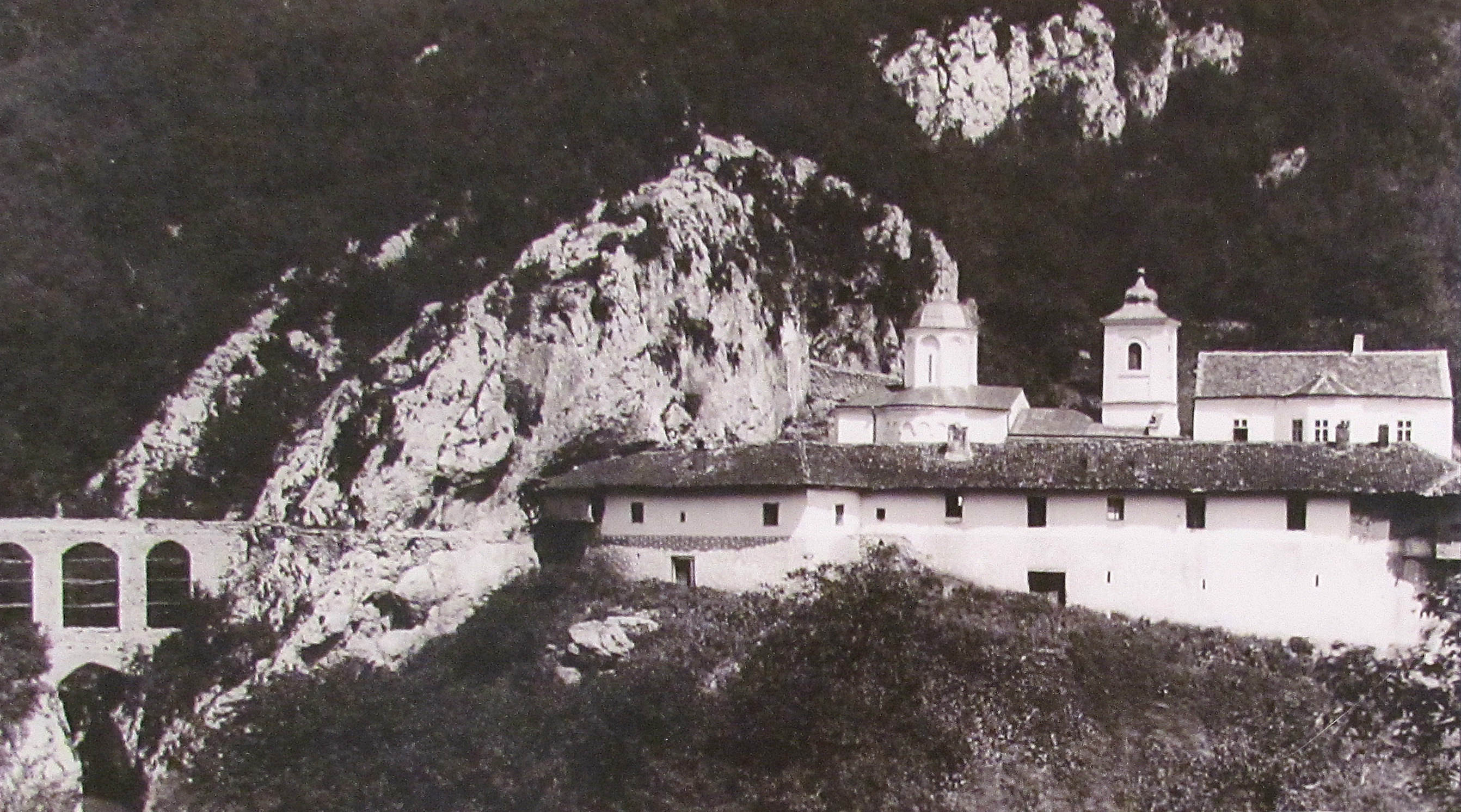 Monastery Vitovnica near Petrovac na Mlavi, Serbia, 1900